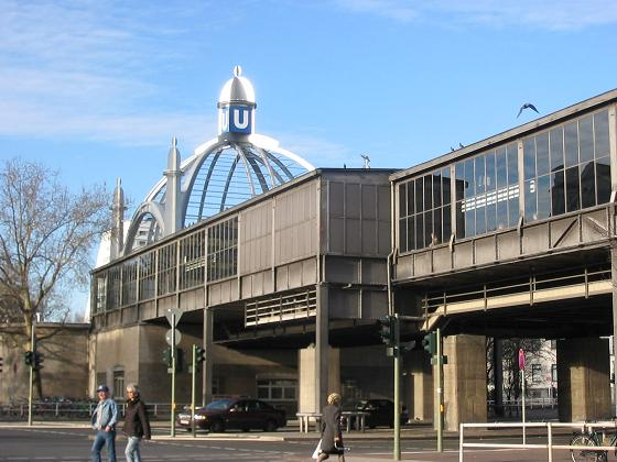 The Berlin U-Bahn station "Nollendorfplatz"